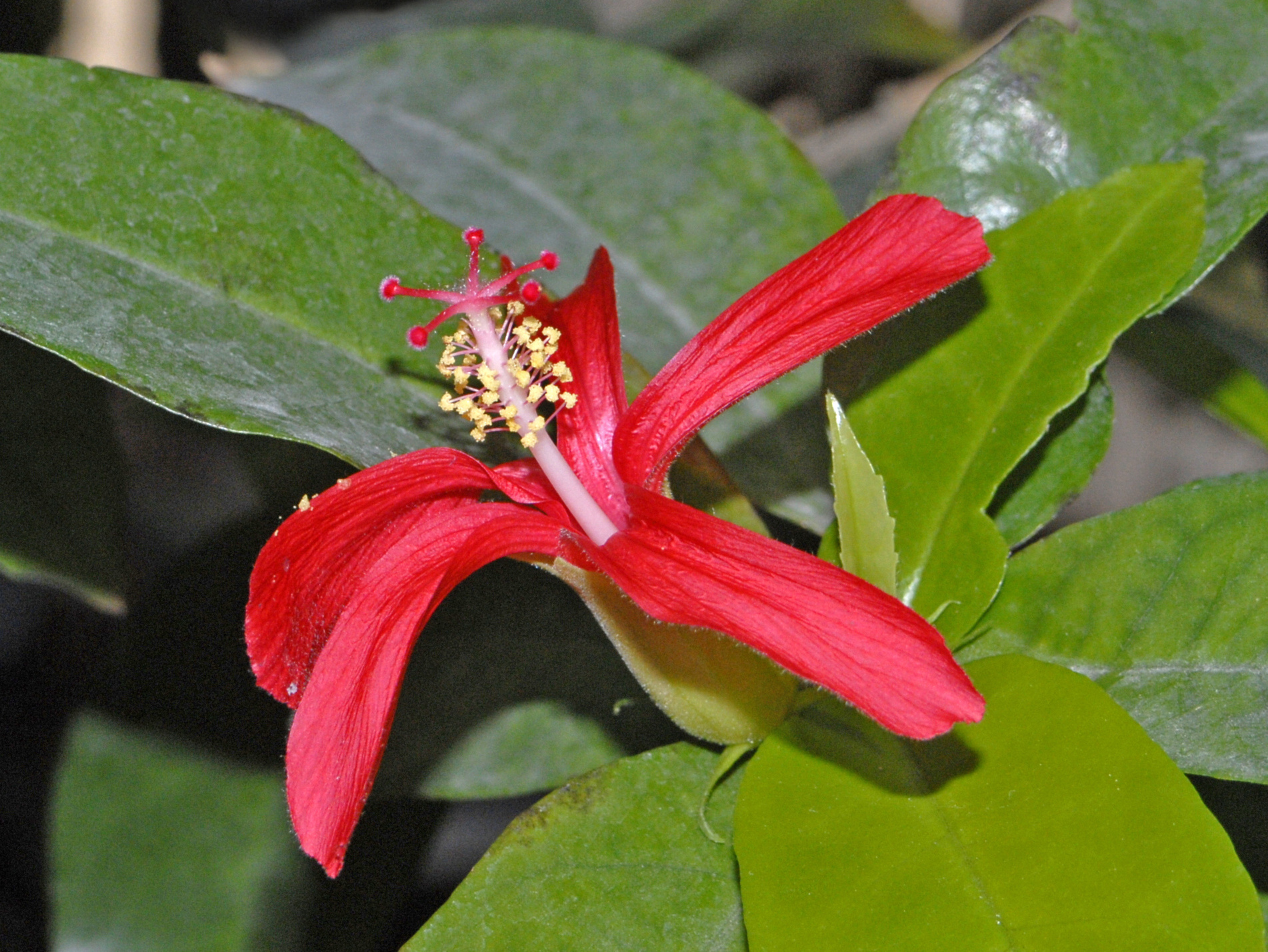 Hibiscus clayi at the Jardin des Plantes, Paris